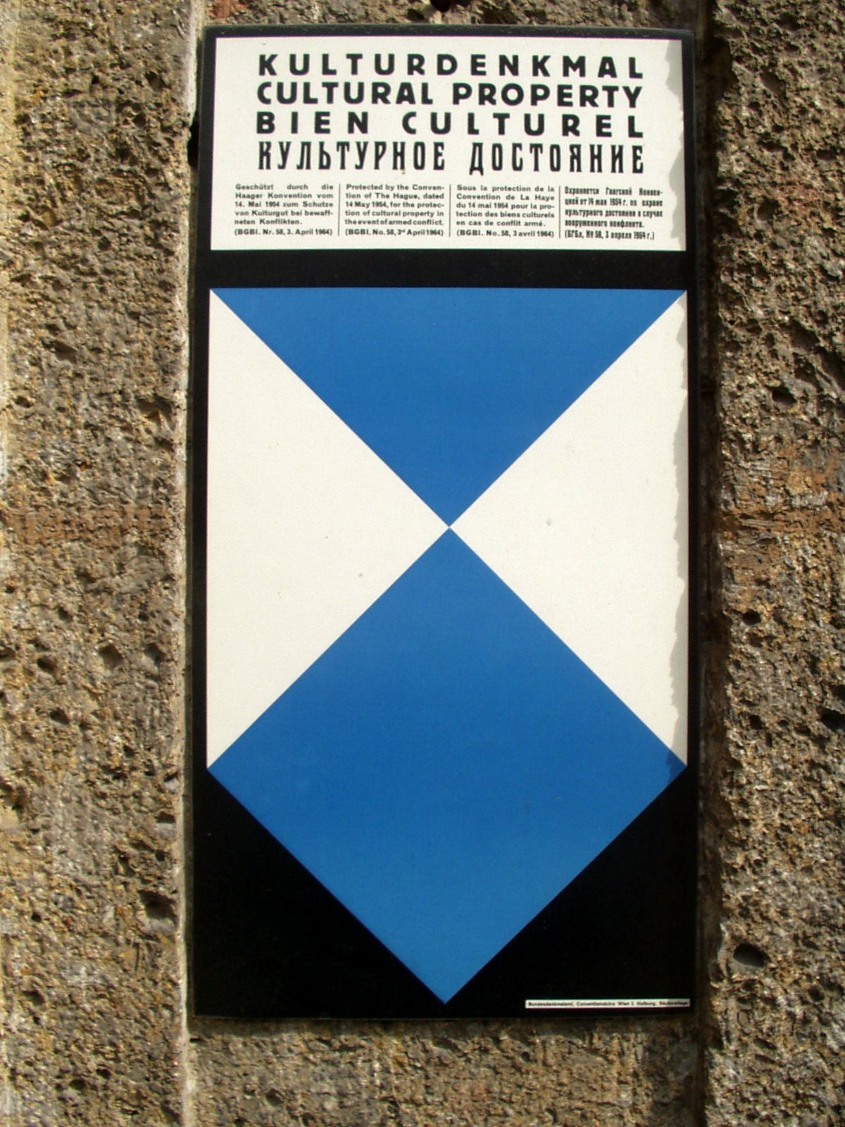 The distinctive marking of cultural property, as defined by the 1954 Hague Convention for the Protection of Cultural Property in the Event of Armed Conflict, on the building of the University Library of Innsbruck, Austria